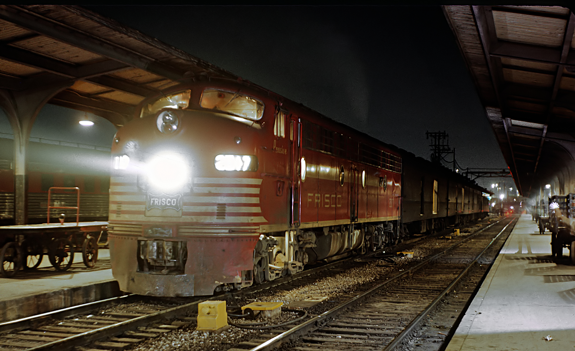 .The train was the overnight mail and express train to Memphis and onto KC, MO. 2017, built in May 1950, and named “Pensive”, the 1944 Kentucky Derby and Preakness Winner. A Roger Puta Photograph